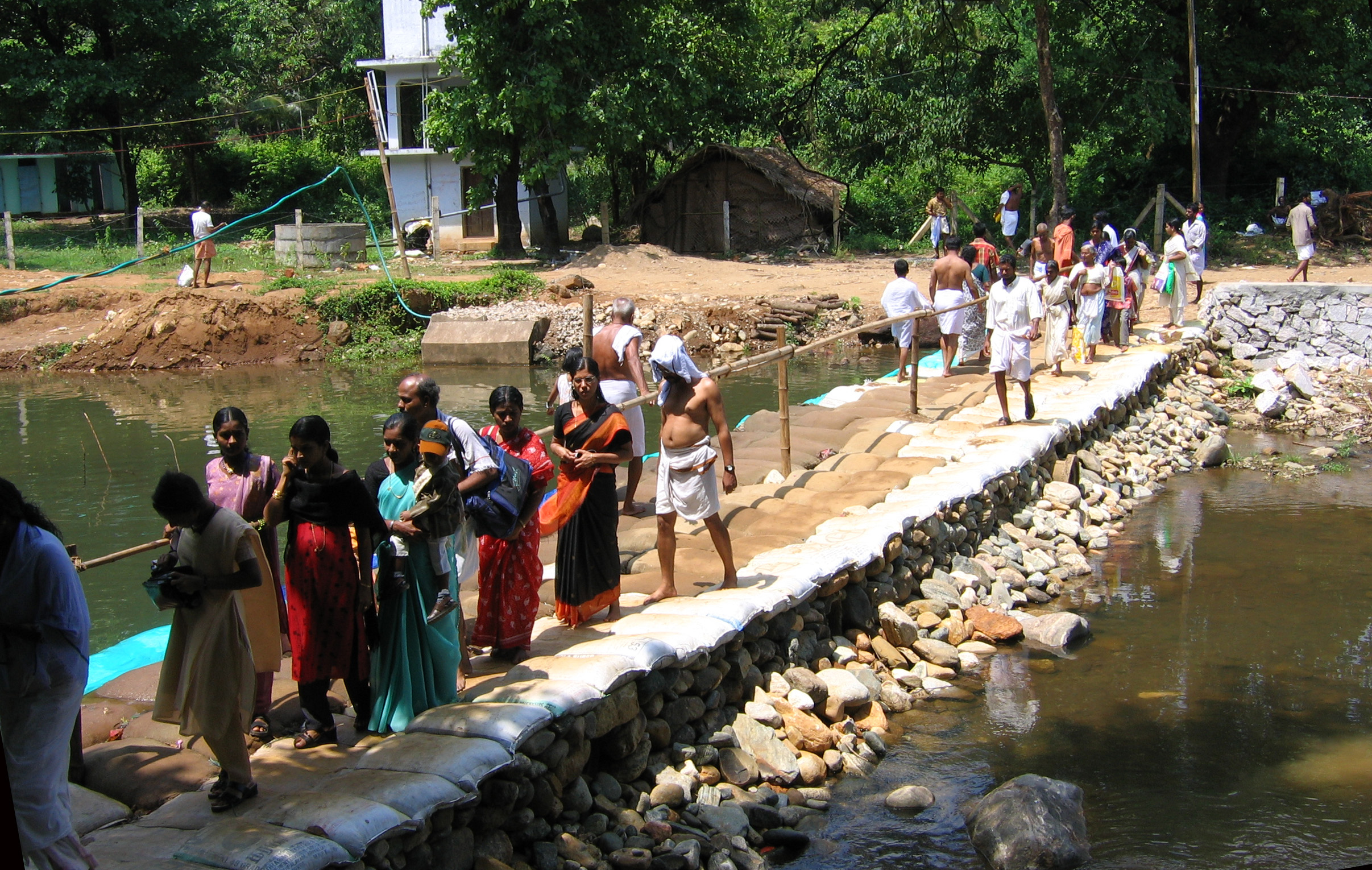 During the festival season May-June every year devotees throng to Akkare-Kottiyoor temple, which is closed for the other eleven months.